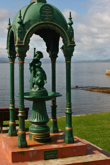 Portmahomack Water-Feature This unusual water-feature commemorates the first supply of water by gravitation to Portmahomack in 1887. It carries an inscription in Gaelic "Uisce Tobar Na Baistiad," "a water well of baptism." The feature was restored for the Millennium. The end of the jetty and harbour are behind.